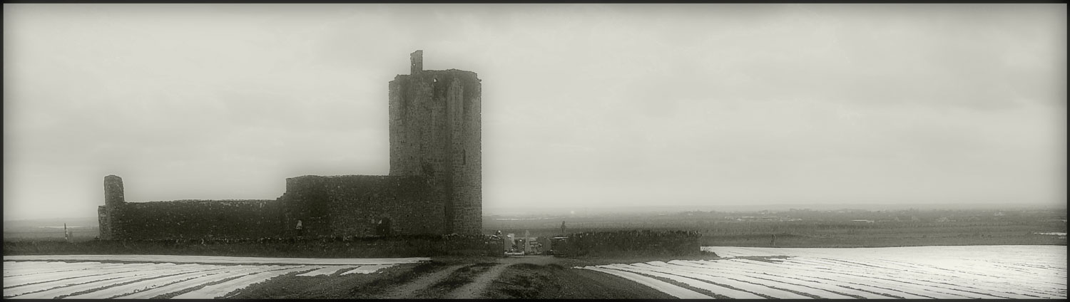 Baldungan Castle, Dublin, Ireland.